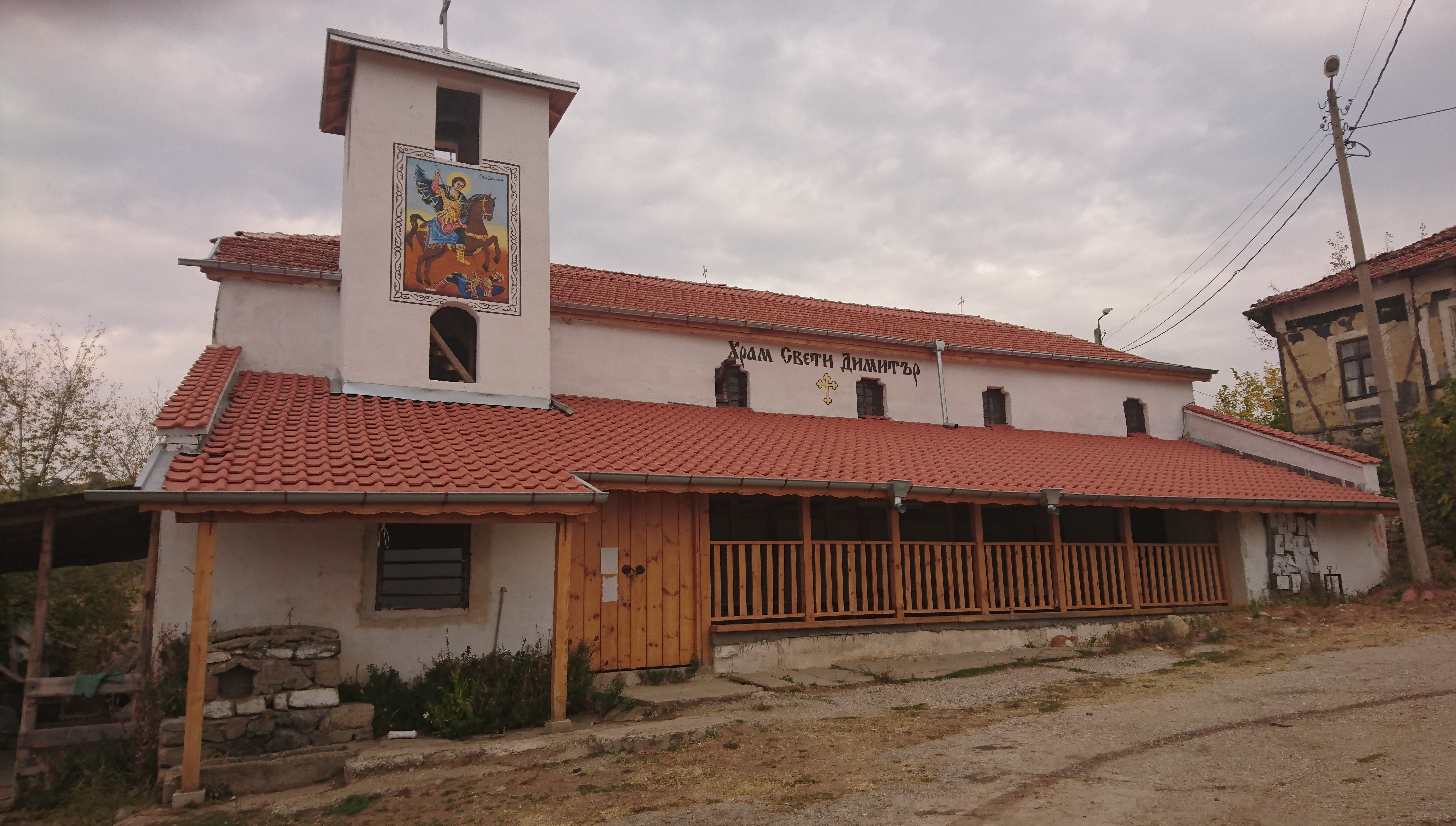 St. Demetrius Church in Gorna Sushitsa, Blagoevgrad Province, Bulgaria